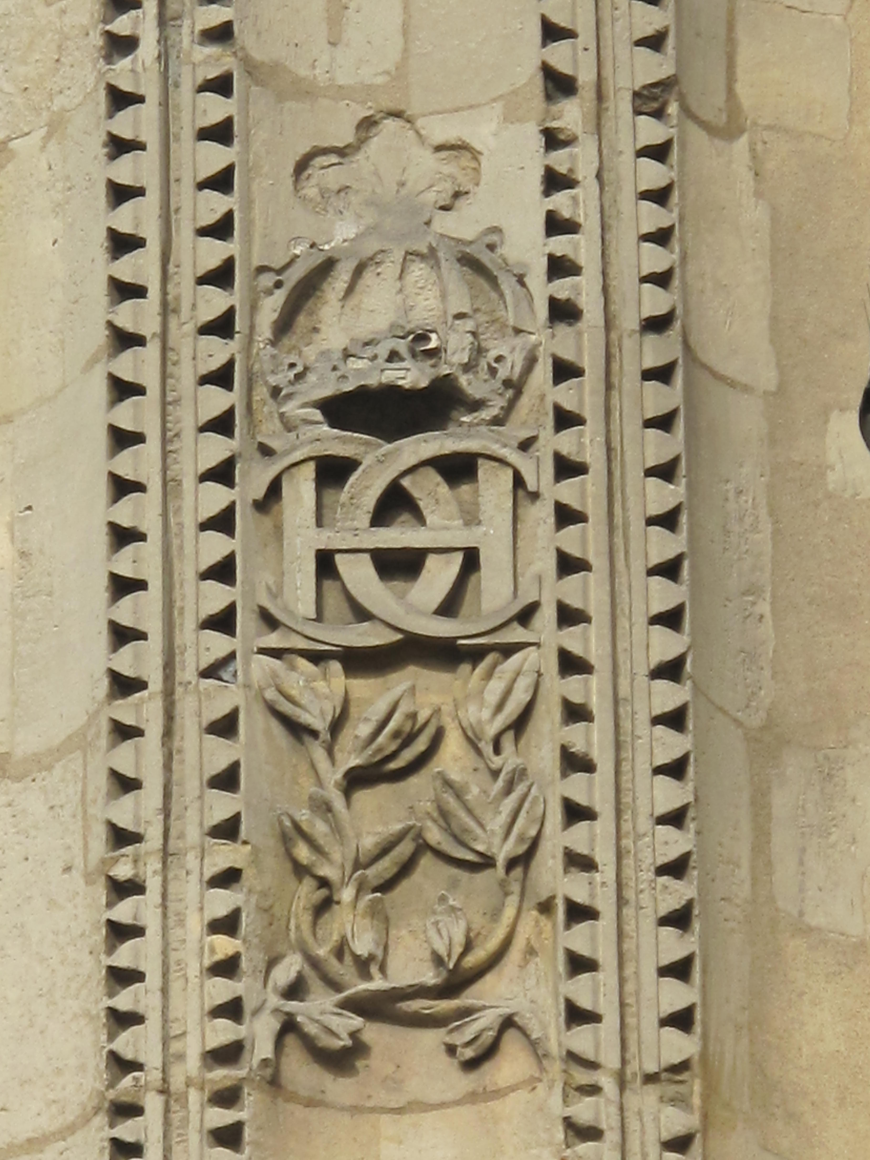 Close-up of the monogram HC (for the king Henri II of France and his wife Catherine de Medici) on the Medicis column, Paris 1st arrond.